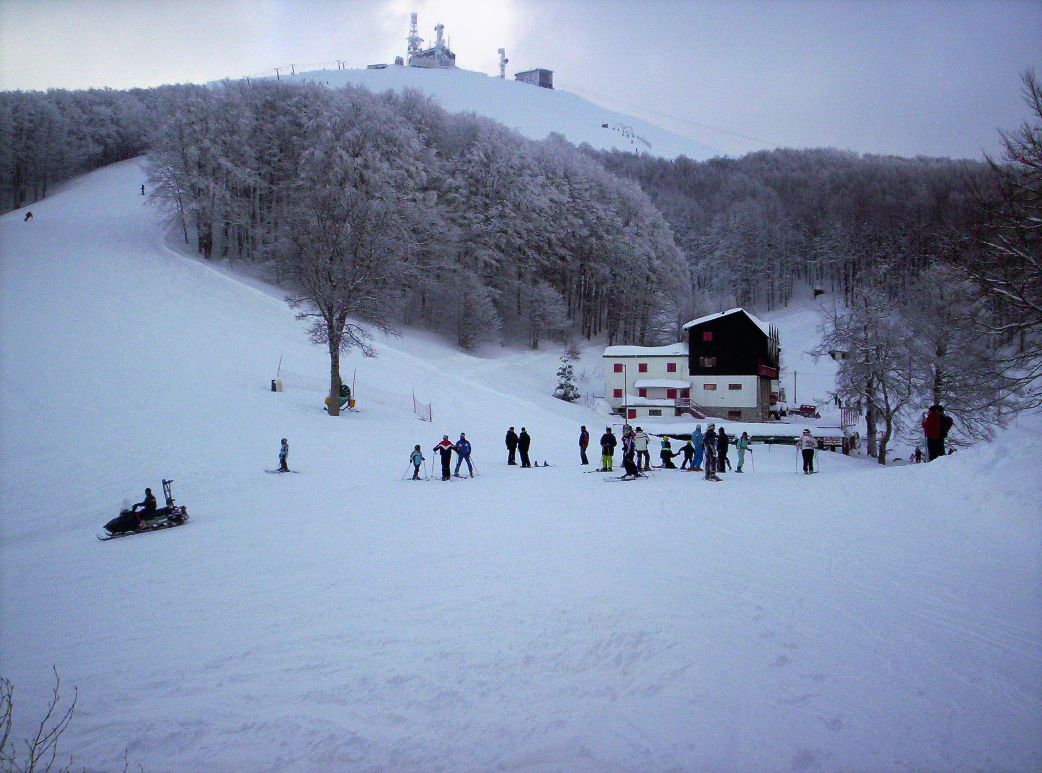 ski area; on the background Monte Terminilluccio (1854 m) and a cable car station